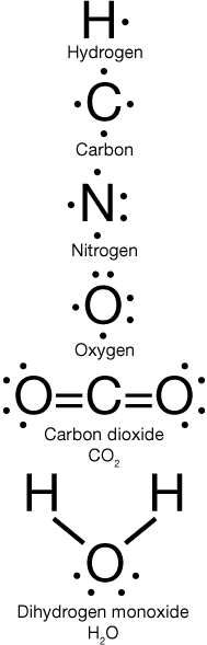 Chemical lewisstructures